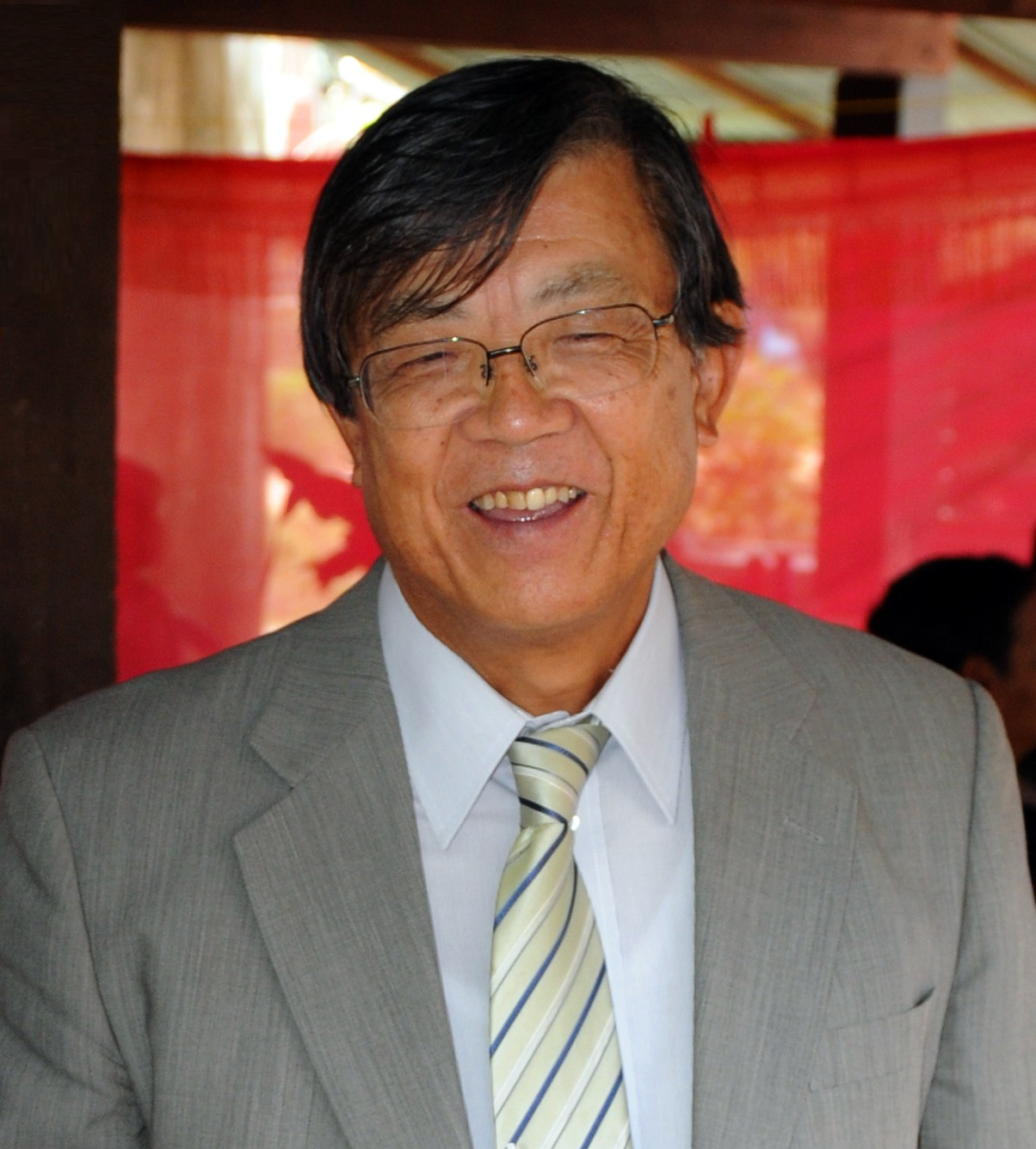 Shikekazu Sato, the Japanese ambassador to Thailand, speaks with Master Sgt. James Musnicki, the officer in charge of cooperative health engagement operations, during a cooperative health engagement Feb. 13 at the Ban Sa la Kai Fub School as part of Exercise Cobra Gold 2014 in Sukhothai province, Kingdom of Thailand. Along with the CHE, four schools are being constructed throughout Thailand and a medical symposium will be held as part of the humanitarian and civic assistance projects taking place during the annual exercise. CG 14, in its 33rd iteration, demonstrates the U.S. and the Kingdom of Thailand's commitment to their long-standing alliance and regional partnership, prosperity and security in the Asia-Pacific region. Musnicki is with the 18th Medical Command from Fort Shafter, Hawaii. U.S. Army forces attended CG 14 in support of U.S. Army Pacific.